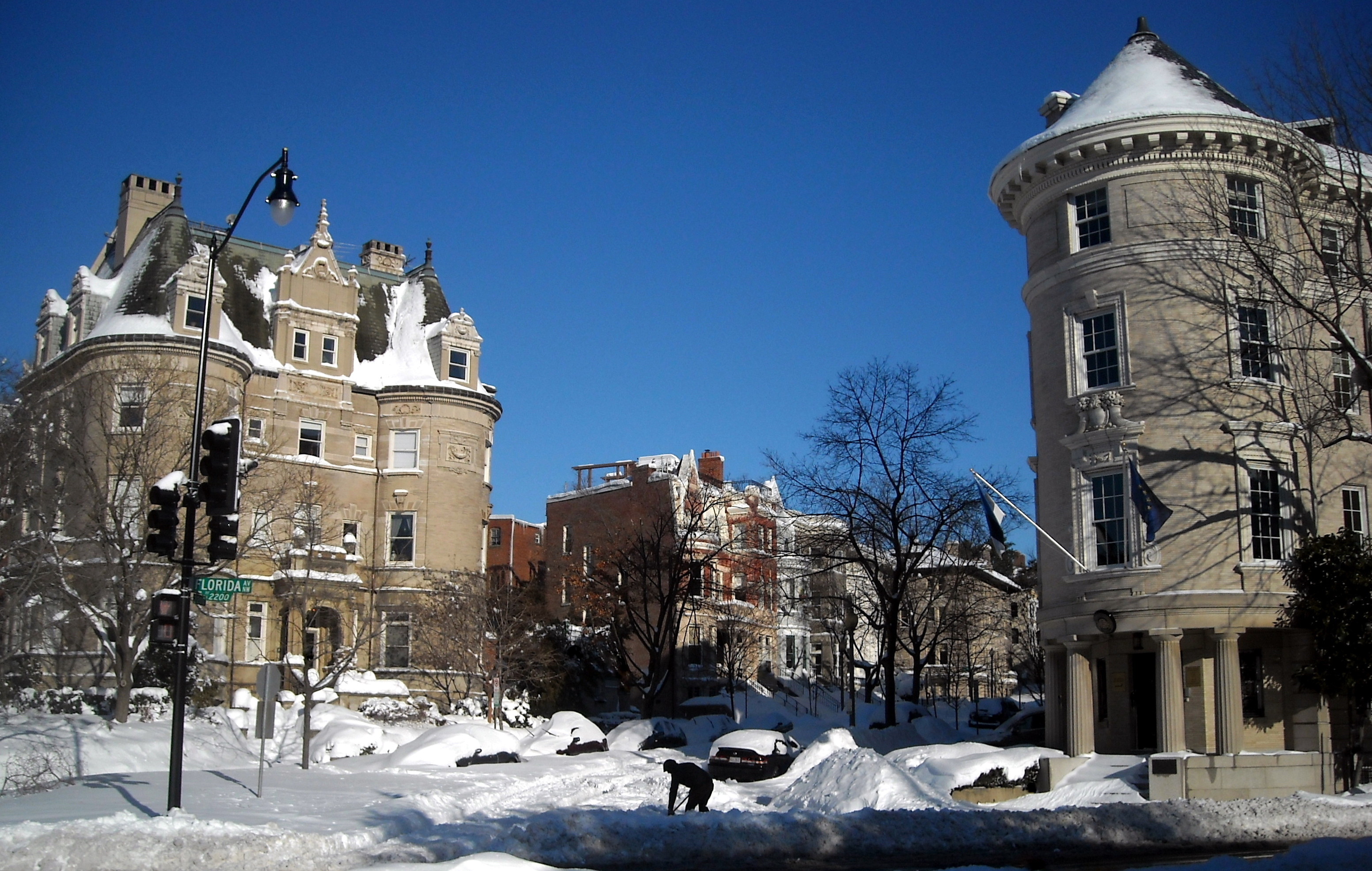 The intersection of 22nd Street, Florida Avenue, and Massachusetts Avenue, N.W., in the Sheridan-Kalorama neighborhood of Washington, D.C., following the Second North American blizzard of 2010. The Embassy of Estonia is on the right-hand side; the Miller House is on the left.